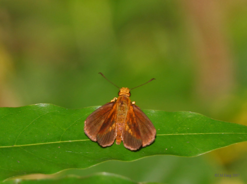 Indian Darlet Oriens goloides at Narendrapur near Kolkata, West Bengal, India.